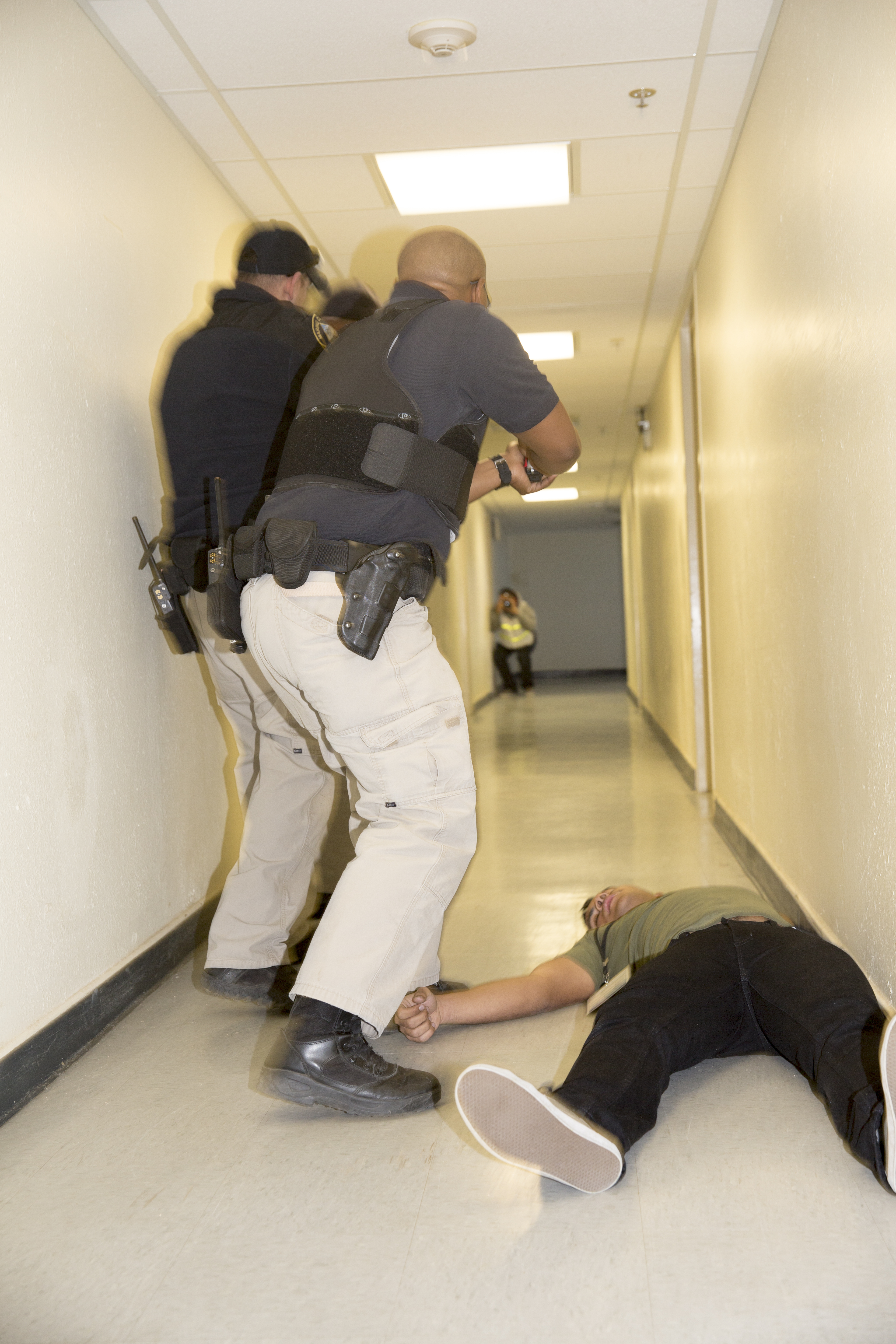 Members of the Marine Corps Logistics Base Barstow Police Department maneuver past Marines role playing as gunshot victims during an active shooter exercise, Feb. 25, 2015. The exercise held aboard MCLBB successfully integrated multiple base organizations in response to the simulated crisis and provided insight on how to improve future emergency service actions.